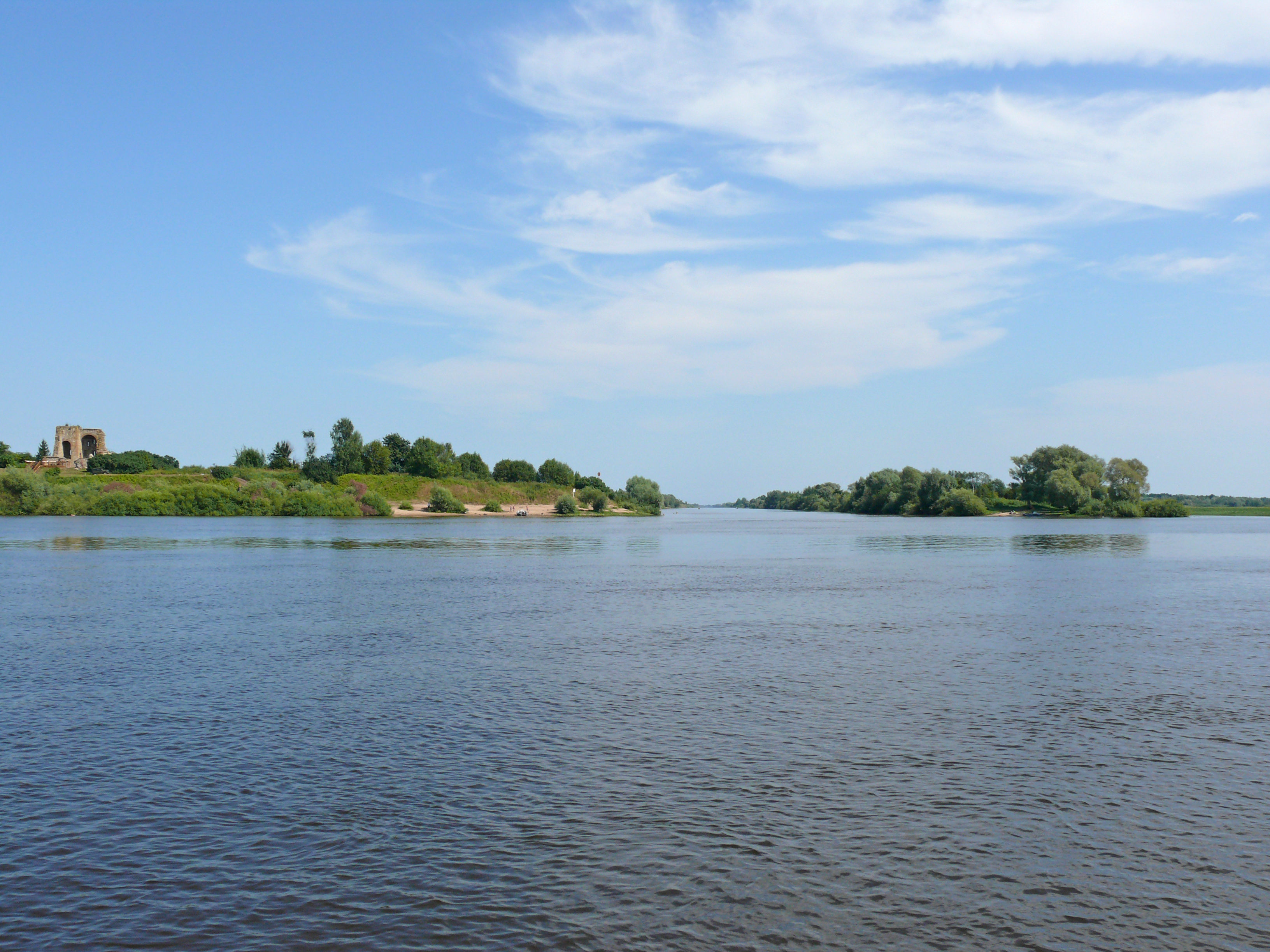 Enter to Siversov canal from Volkhov river. Veliky Novgorod